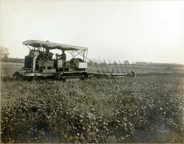 A Holt 60-horsepower, four-cylinder valve-in-head gasoline Caterpillar tractor number 524 from 1912, shortly after being purchased in 1914. The tractor was restored in the late 1960s and is the oldest surviving East Peoria-built tractor known to exist. This tractor is also owned by the original purchasing family